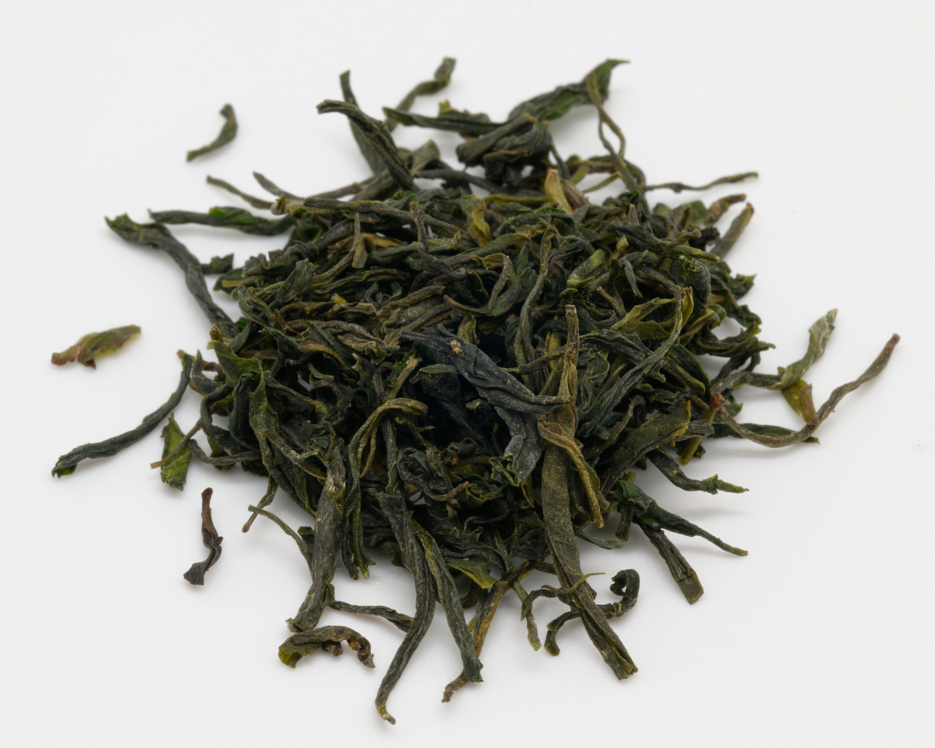 Maofeng green tea from the Anhui province in China.